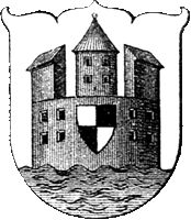 Wappen von Tilsit